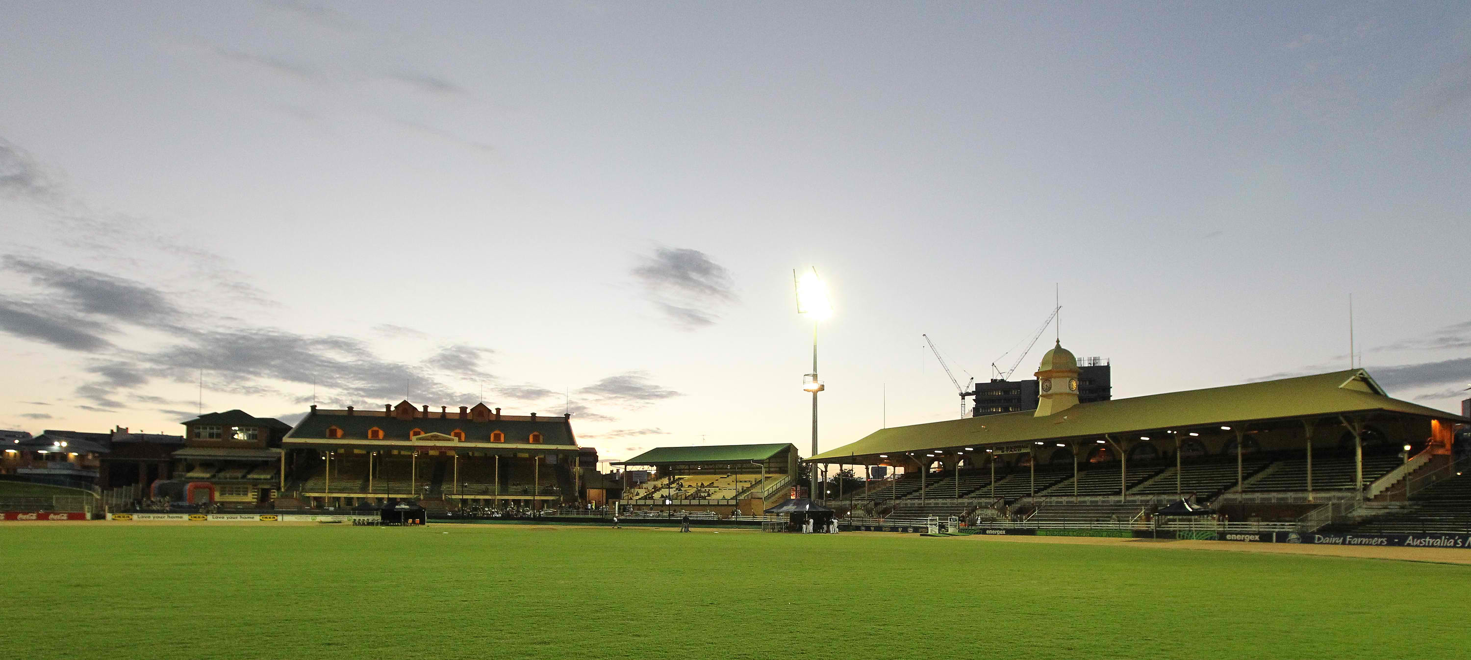 Brisbane Exhibition Grounds before opening night of the Australian Baseball League between the Brisbane Bandits and the Perth Heat on 11/11/10.